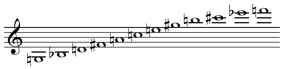 The principal tone row from Alban Berg's Violin Concerto